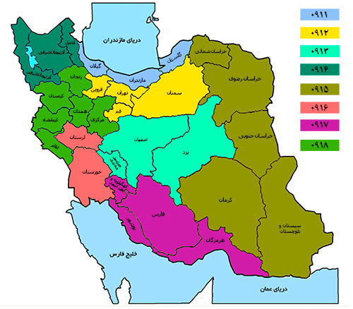 Map of IR-MCI(Mobile operator in Iran) numbering plap